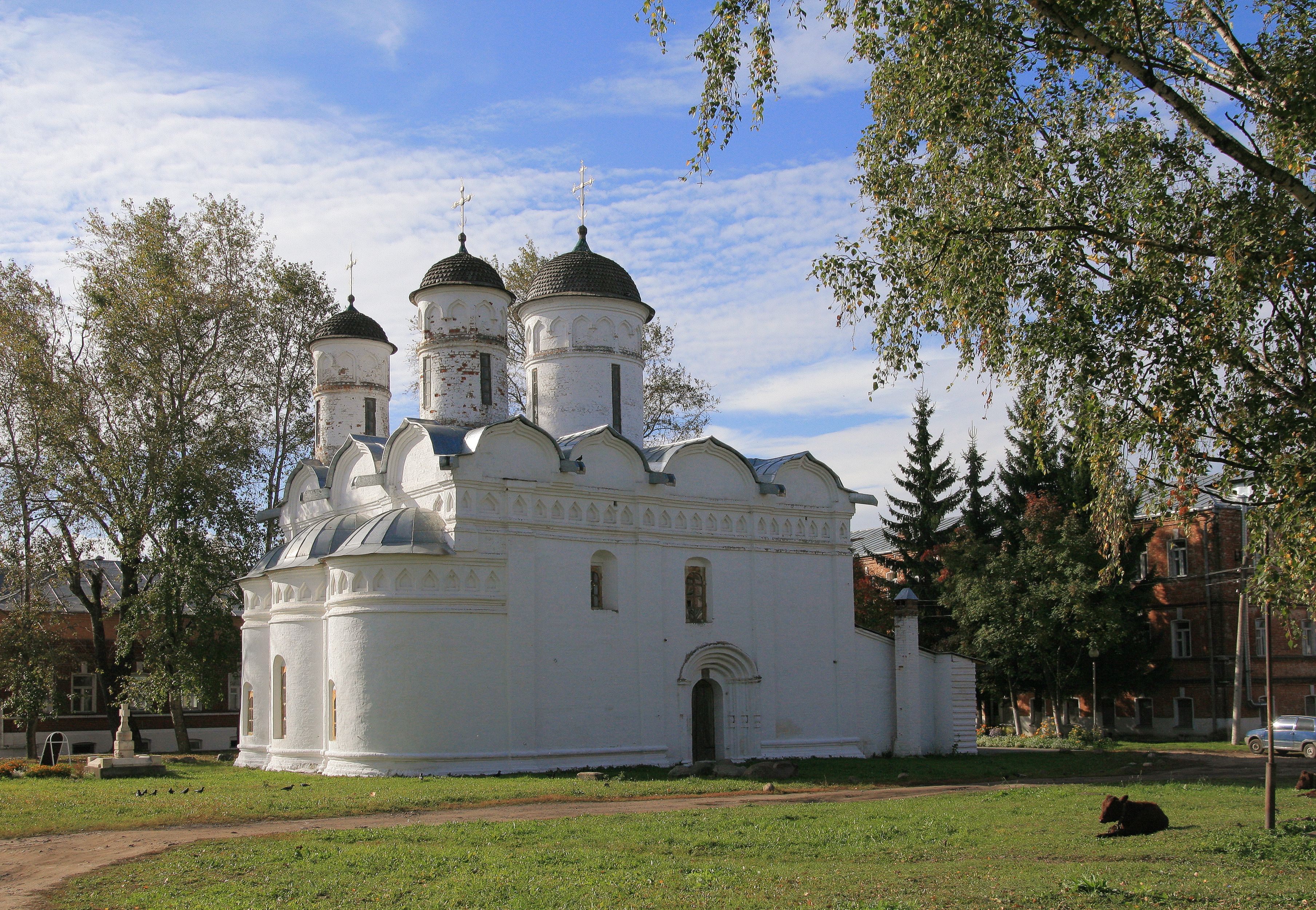 Rizopolozhensky Cathedral of the Rizopolozhensky Monastery, Suzdal, 1520